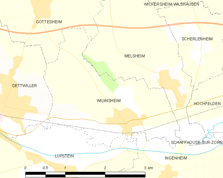 Map of French municipality